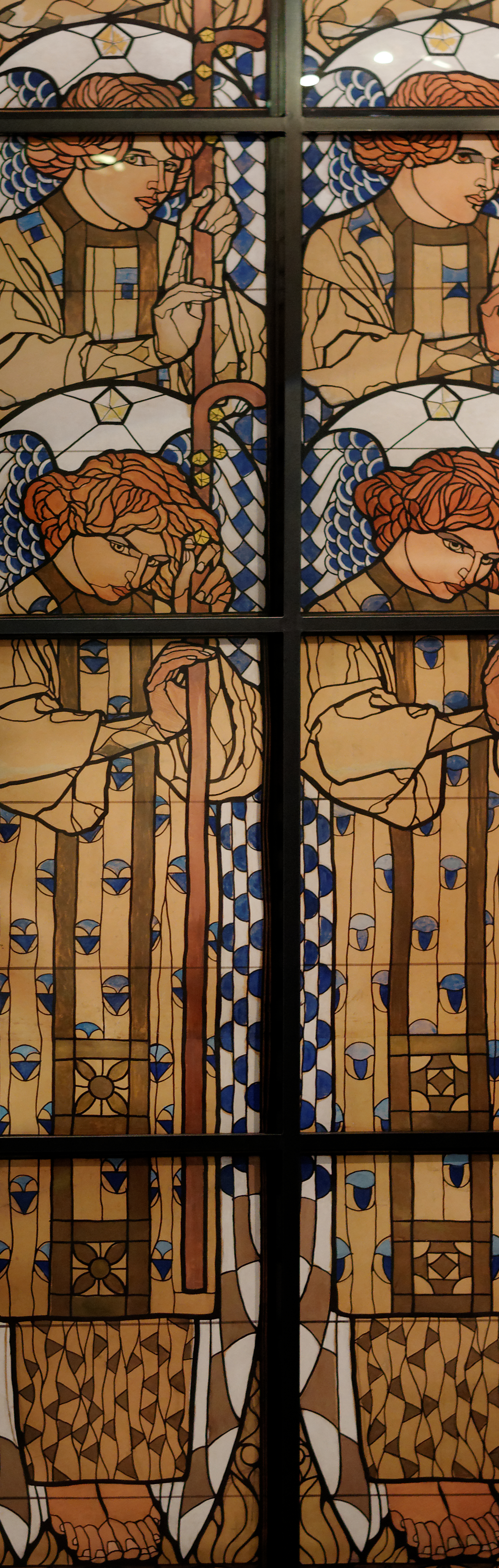 Design for the angel window in the Otto Wagner Church (Kirche am Steinhof), 1905. Gouach, black ink on paper